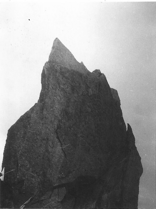 Photo of kinner kailash taken in 1980.